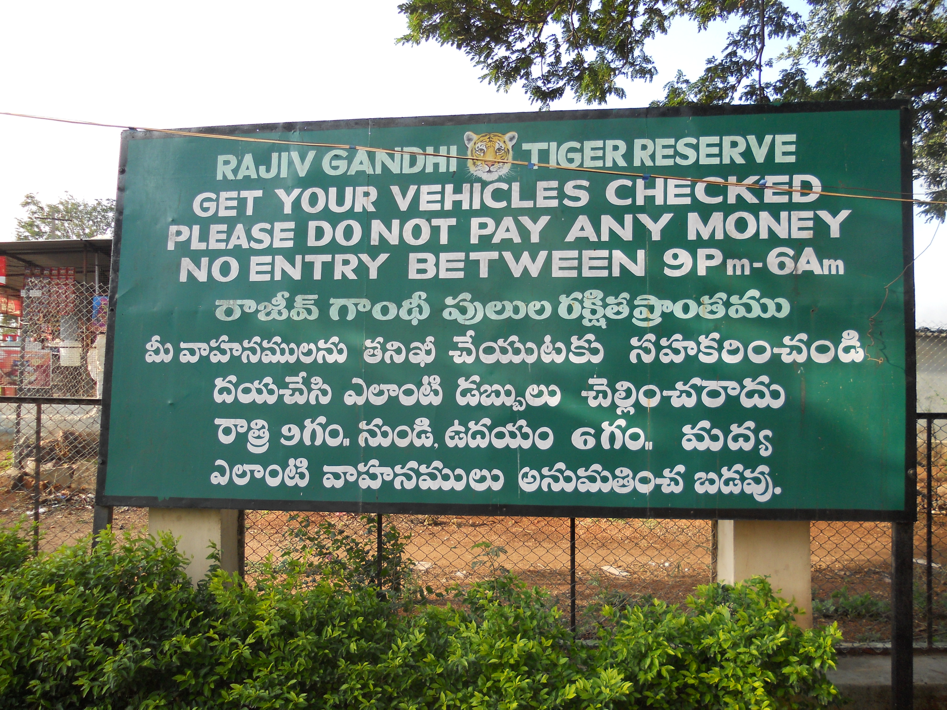 Sign board at srisailam tiger reserve entrance.